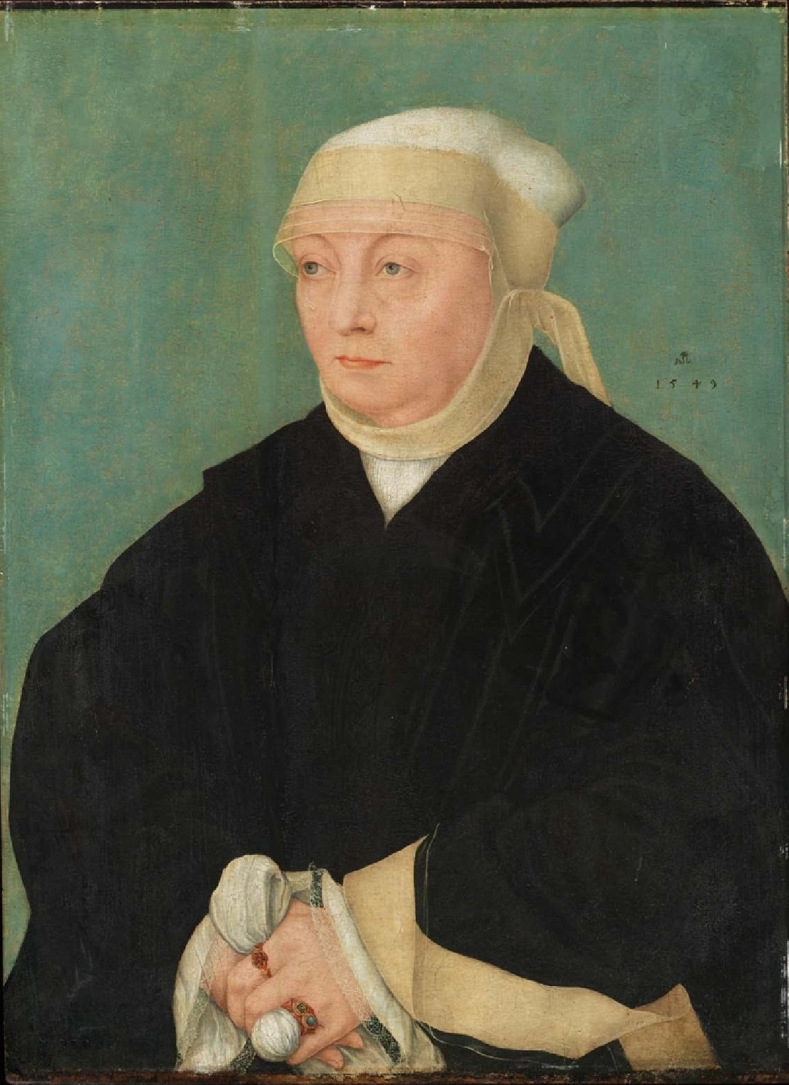 Depicted person: Possibly Bona Sforza